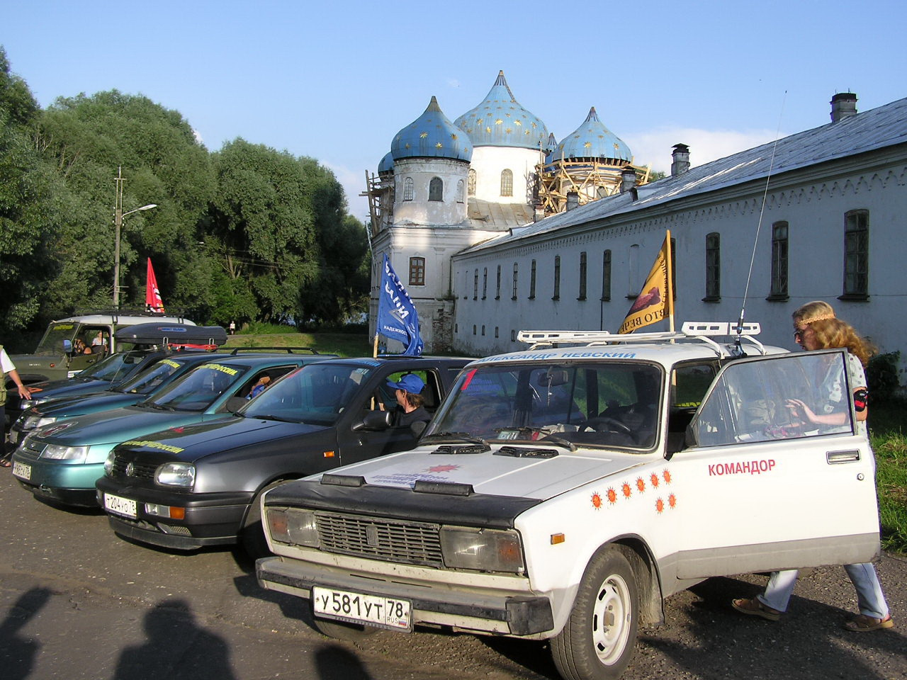 Encamp near the walls of church in Veliky Novgorod.